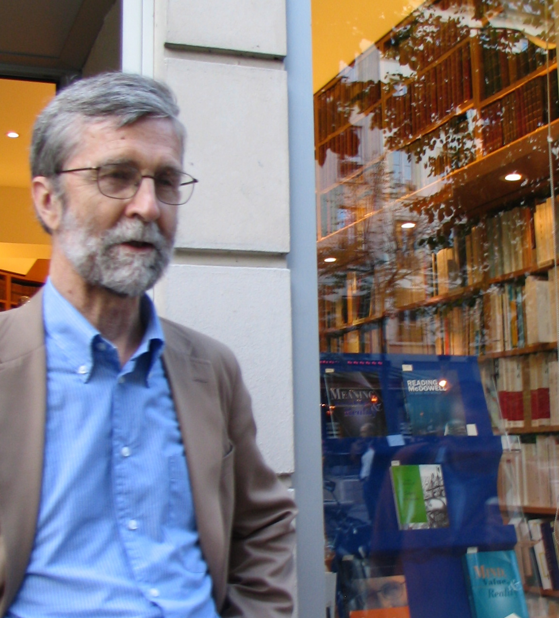 Philosopher John McDowell in Paris, 2007, in front of the Librairie Philosophique J. Vrin.